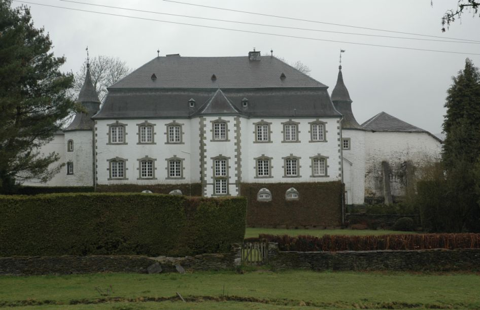 de Beurthé Castle located at Steinbach, Belgium